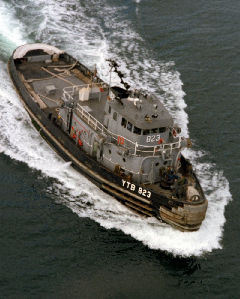 Aerial starboard bow view of Canonchet (YTB-823) underway at San Diego, 1 May 1983. DVIC photo # DNSC8402003 by PH1 David Maclean, USN